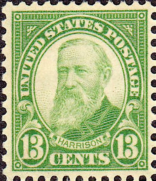 US Postage stamp: Benjamin Harrison, Issue of 1926, 13c